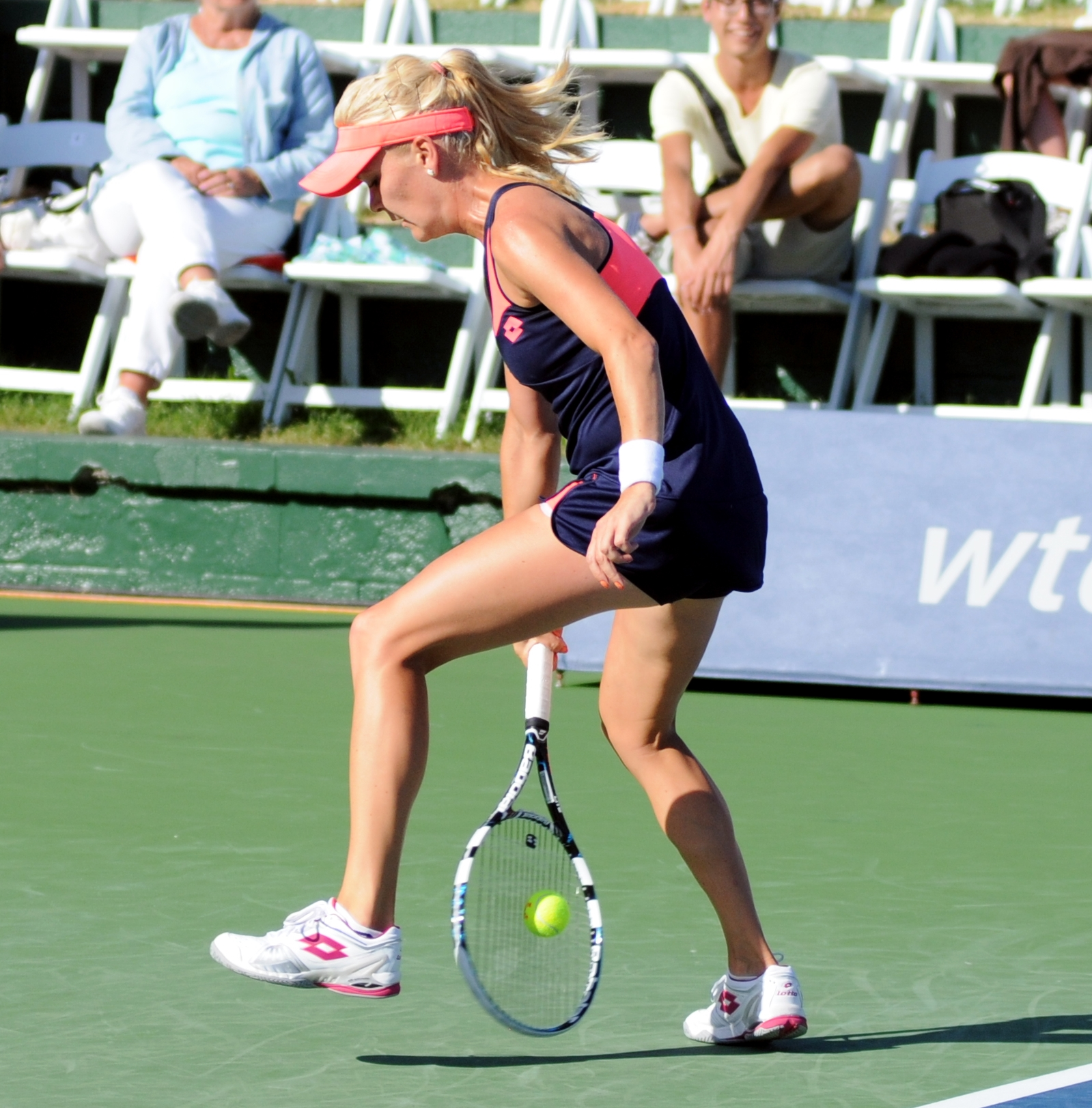 2013 Southern California Open - Quarterfinals